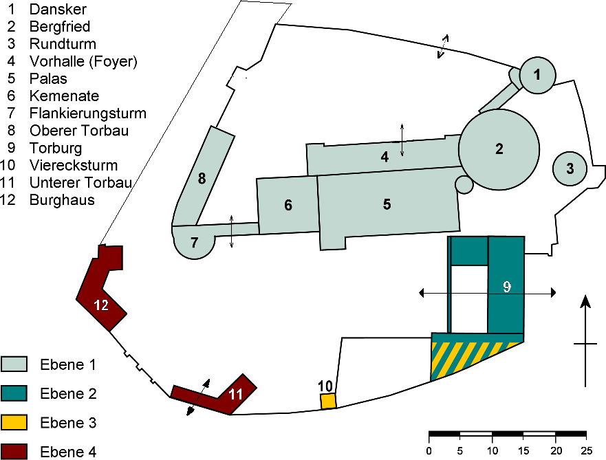 Floor plan of the Castle of Stolberg, North Rhine-Westphalia.